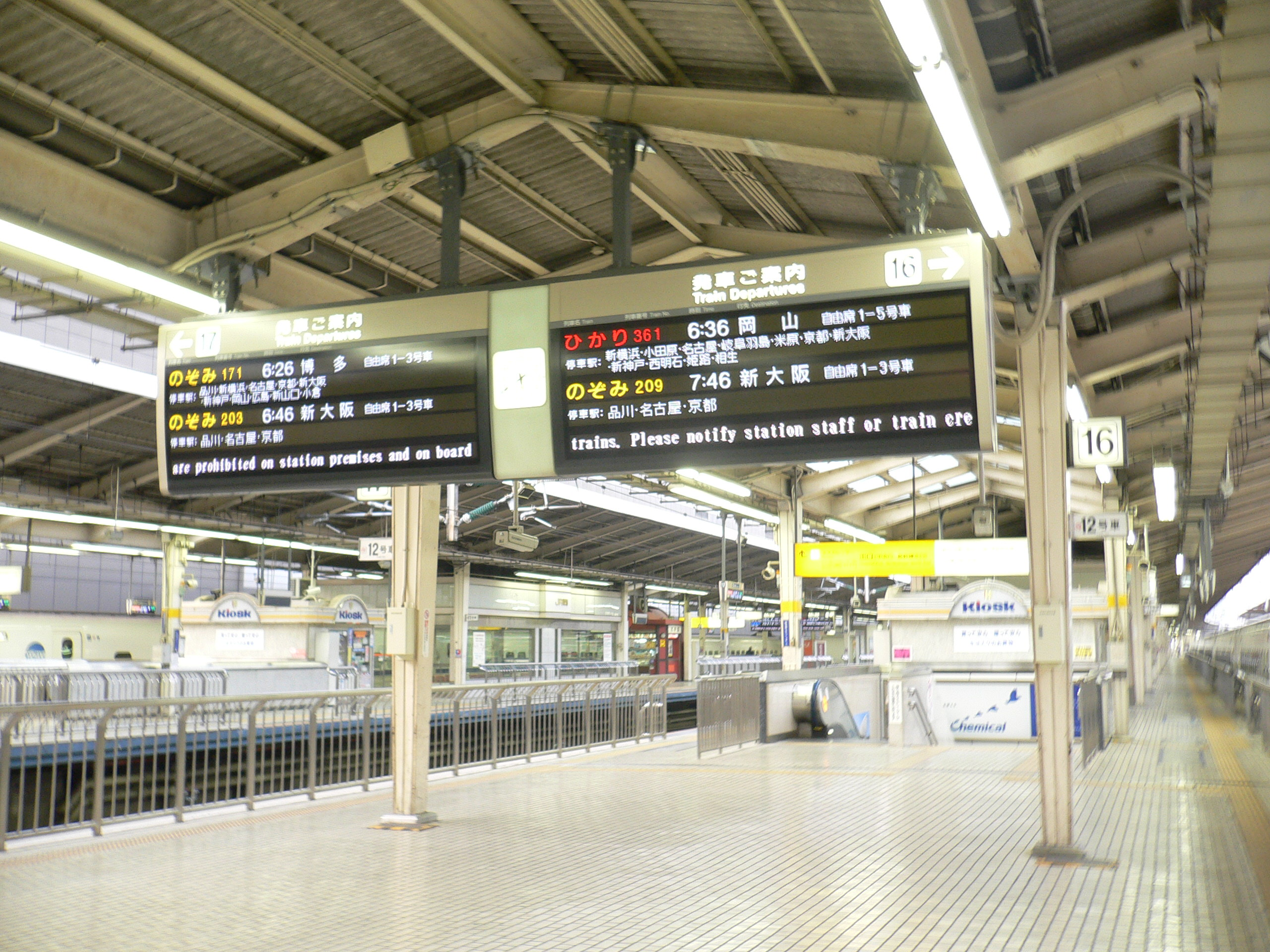 Tokaido Shinkansen platforms 16 & 17 of Tokyo Station